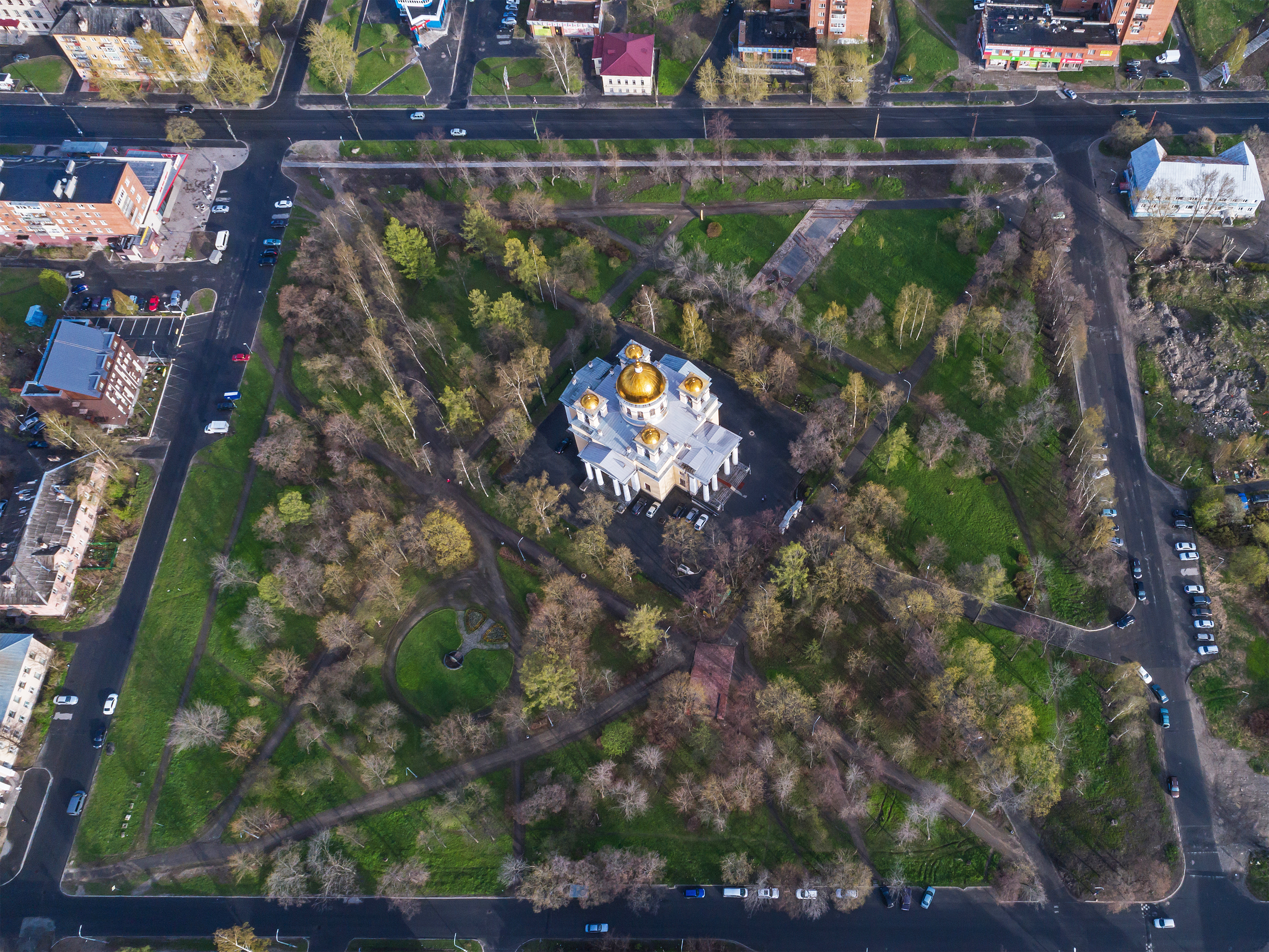 Aerial photo of Petrozavodsk, Republic of Karelia (Russia).